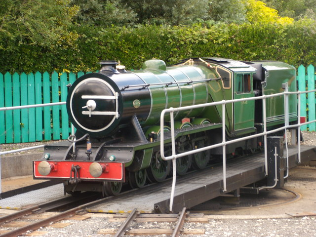 Triton at Scalby Mills Station